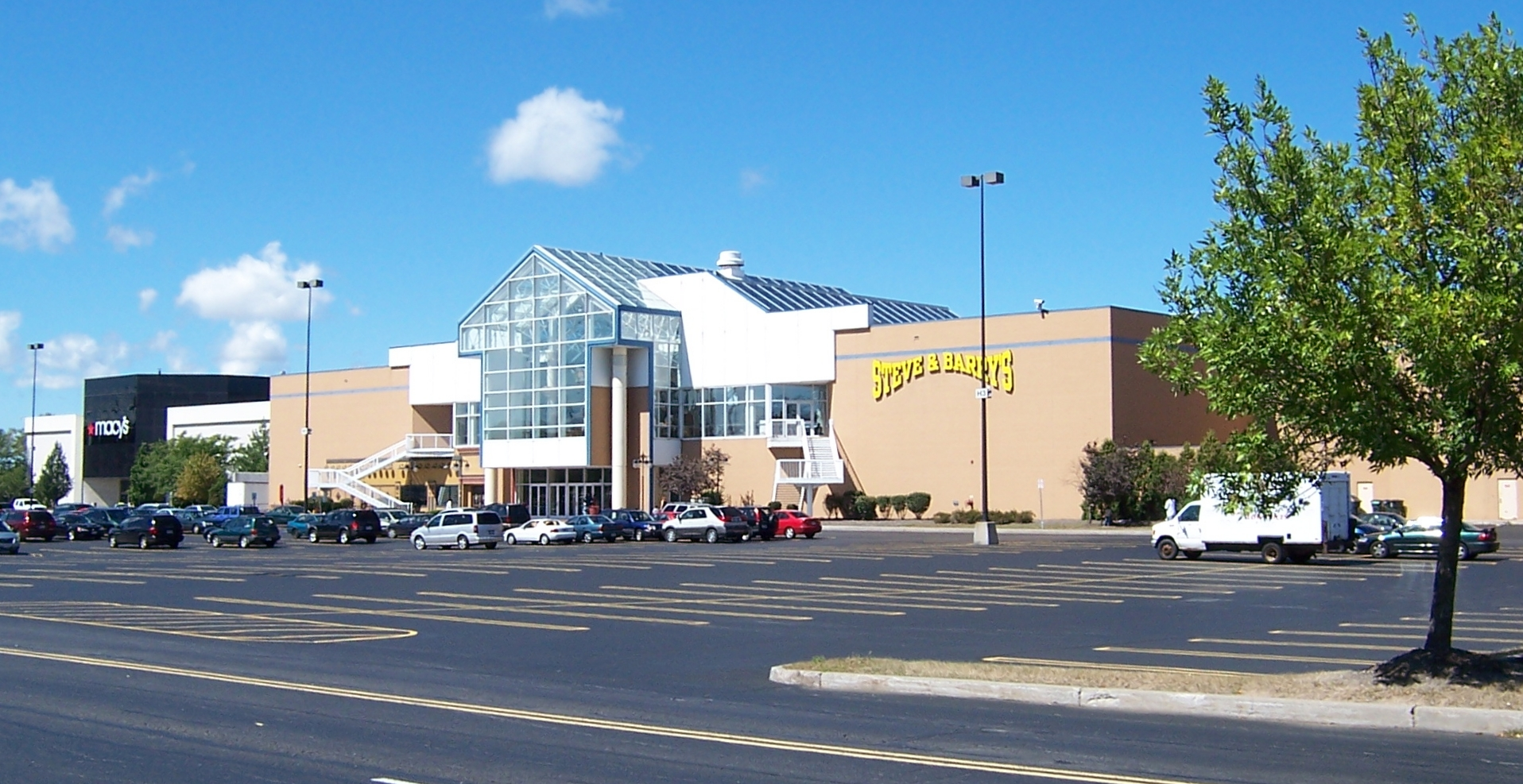 Medley Centre in Irondequoit, a suburb of Rochester, New York. This shows just a small portion of the mall, specifically the entrance below the food court. The mall's carousel is behind the large window, on the upper level at the food court.